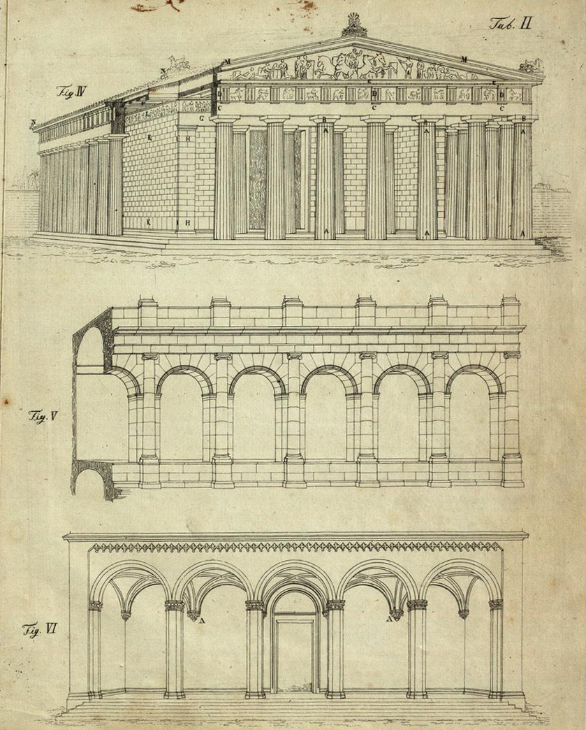 Illustration from In welchem Style sollen wir bauen? (1828) by Heinrich Hübsch.